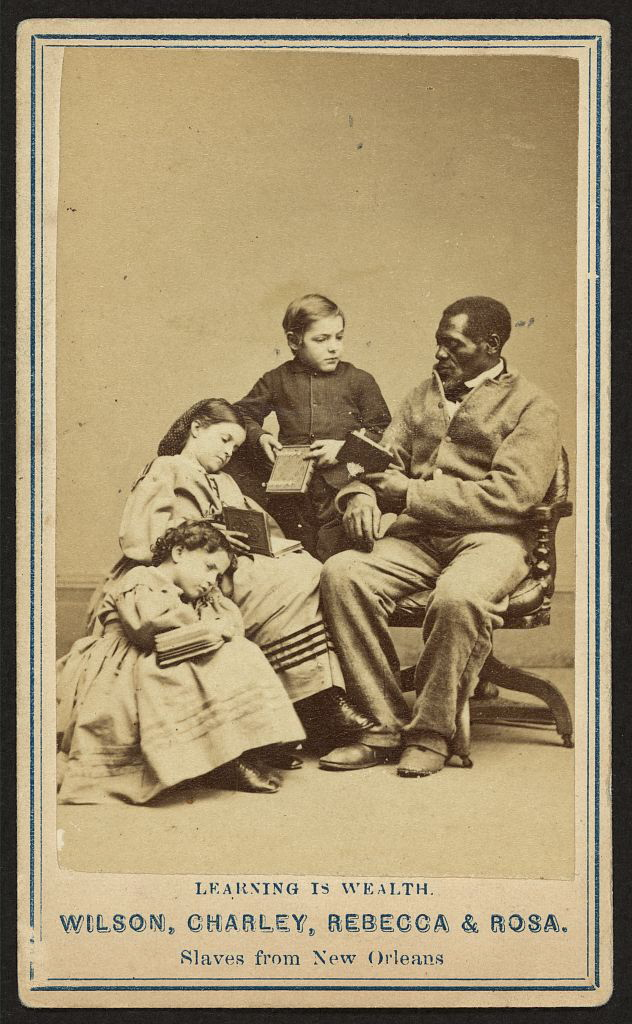 Depiction of white slave children alongside a former African American slave, in a depiction of white slave propaganda.